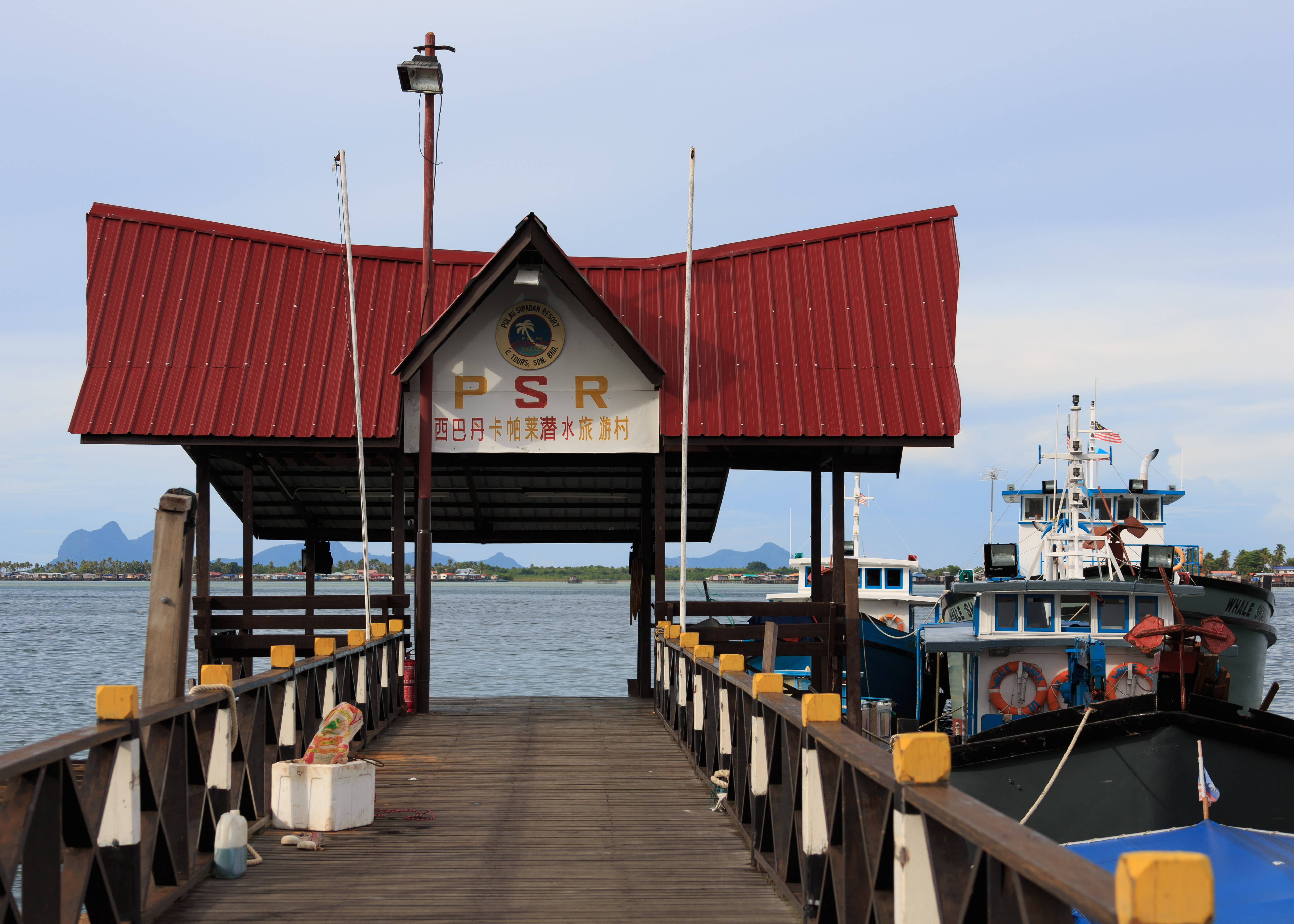 Semporna, Sabah: Jetty to Pulau Sipadan Resort (PSR Jetty)